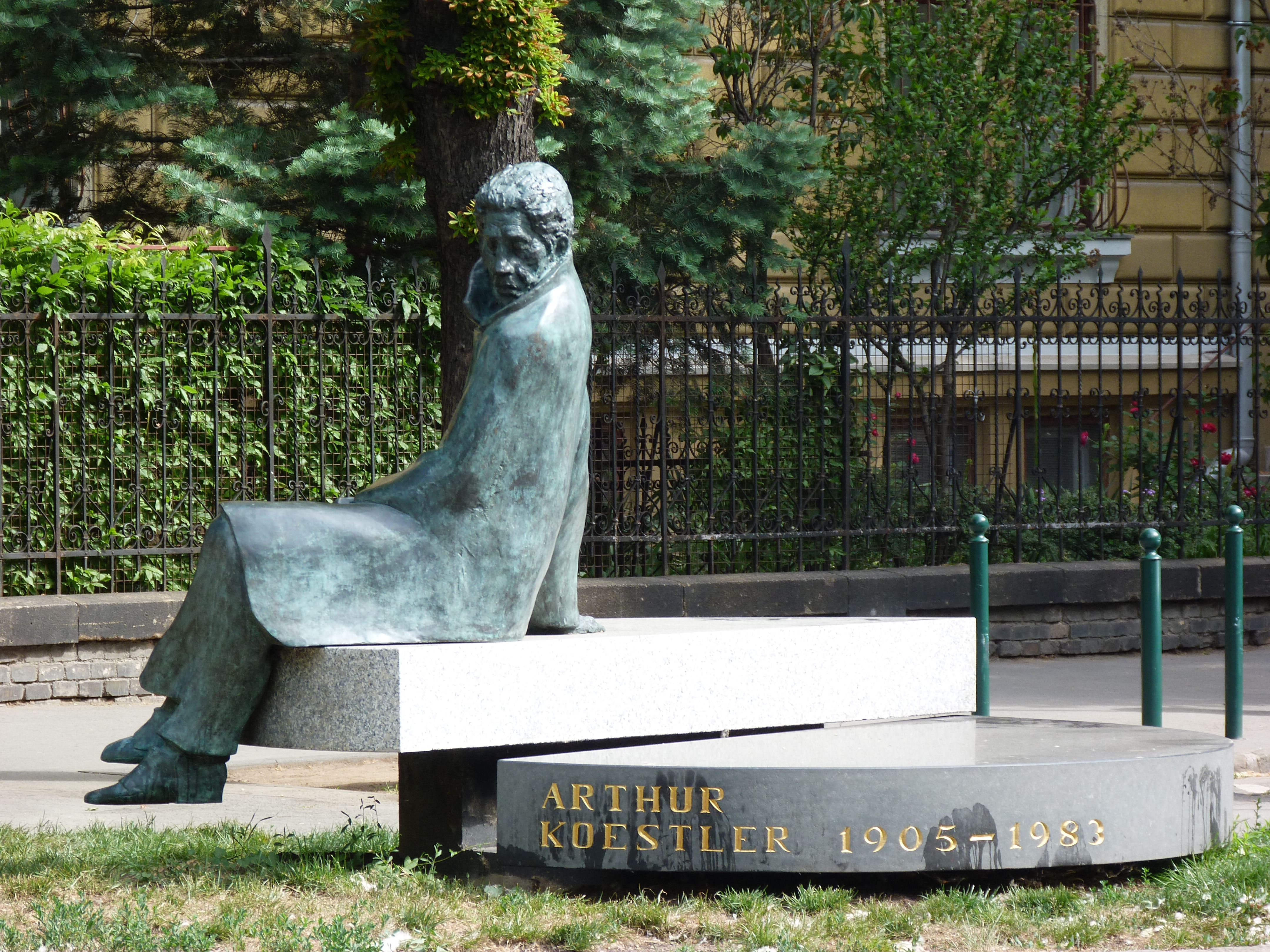 Arthur Koestler life-size bronze statue sculpted by Imre Varga was unveiled on the 20th of October, 2009. (Budapest, Terézváros, Városligeti fasor 2 szám).